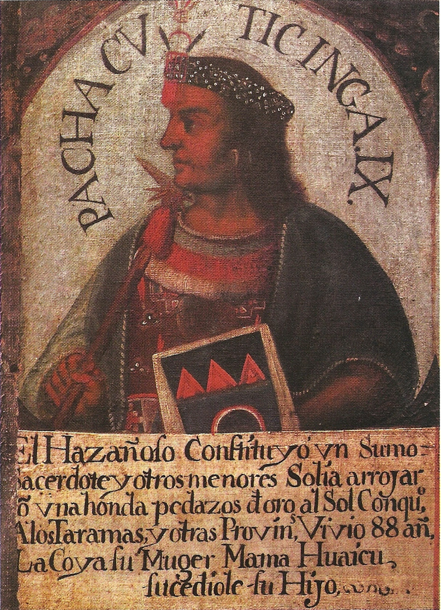 Retrato de Pachacútec